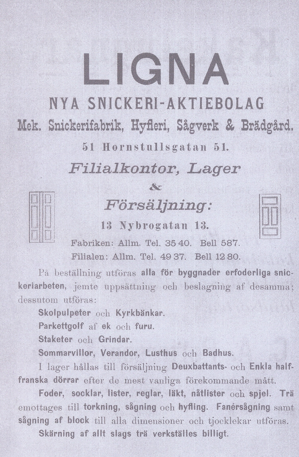 Advertisement Ligna